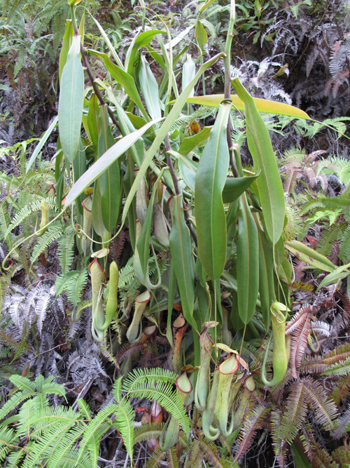 N.macrovulgaris